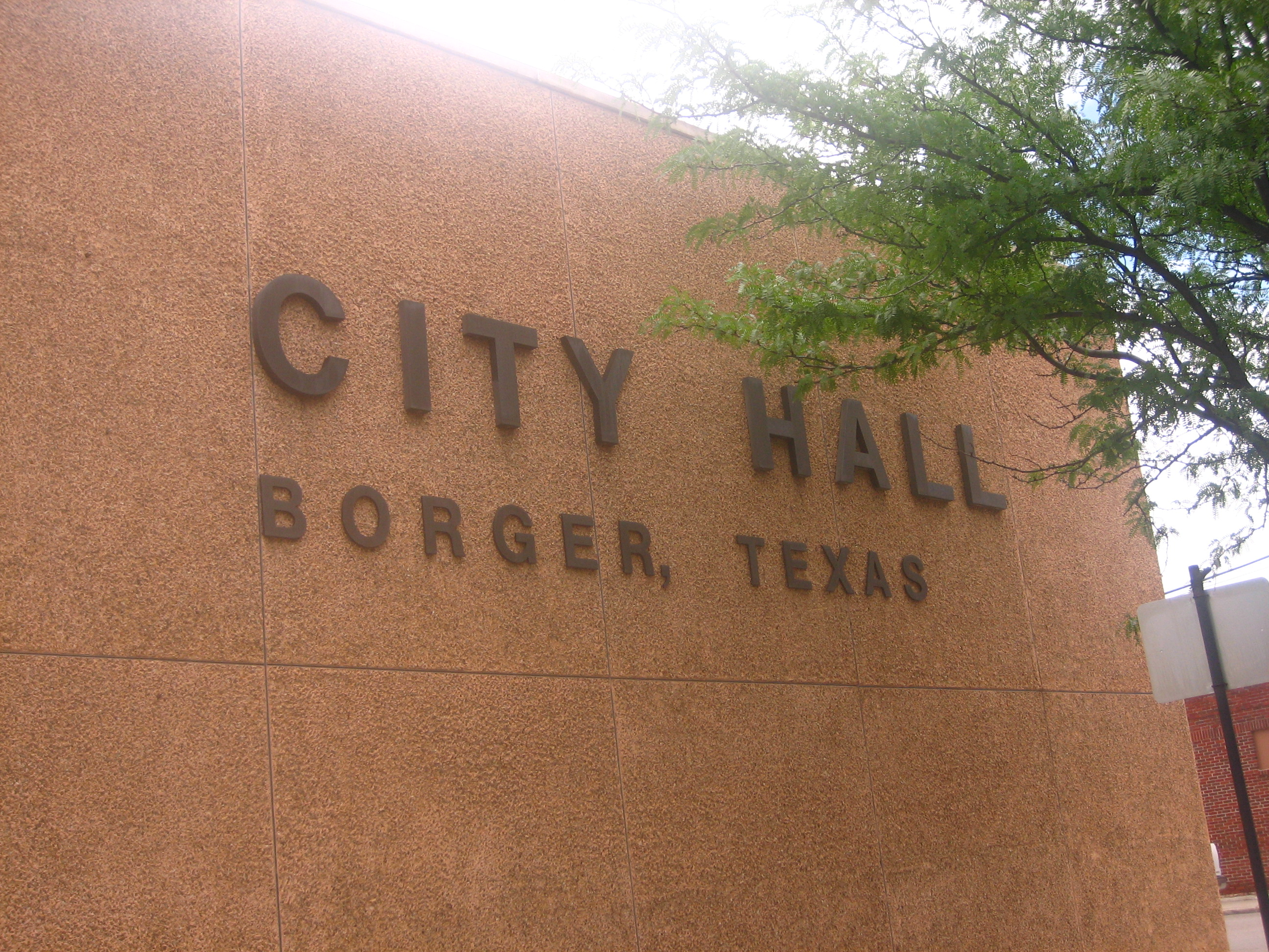 I took photo on July 15, 2008.Billy Hathorn (talk) 21:12, 22 July 2008 (UTC)